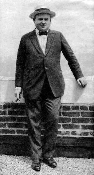 American film producer and studio executive James Dixon Williams (1877 - 1934), on page 14 of the January 1921 Film Fun.